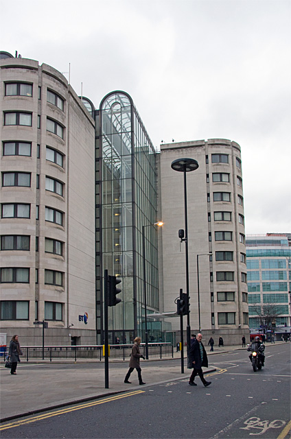 BT Centre, the headquarters of BT Group